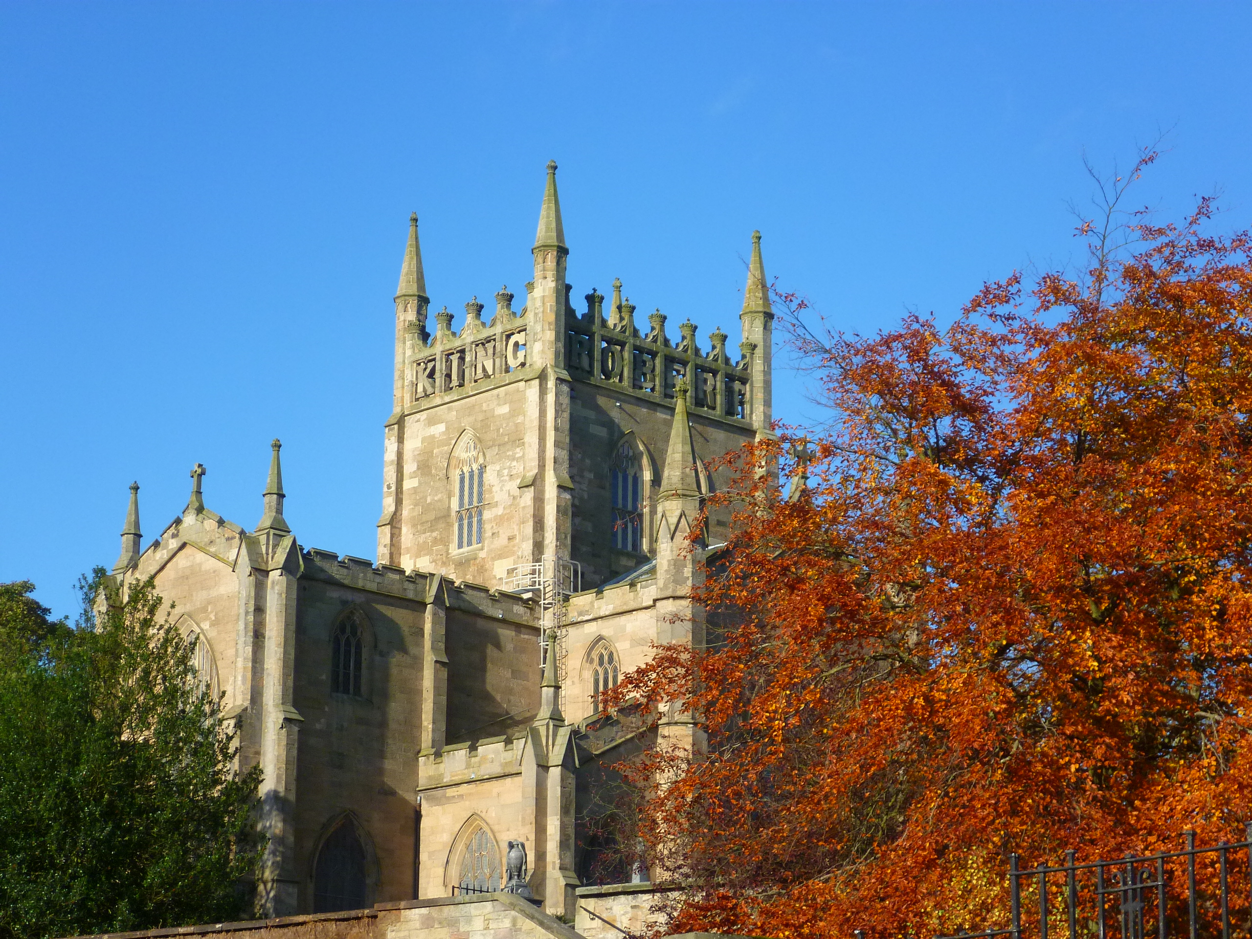 The tower incorporates the letters KING ROBERT THE BRUCE.